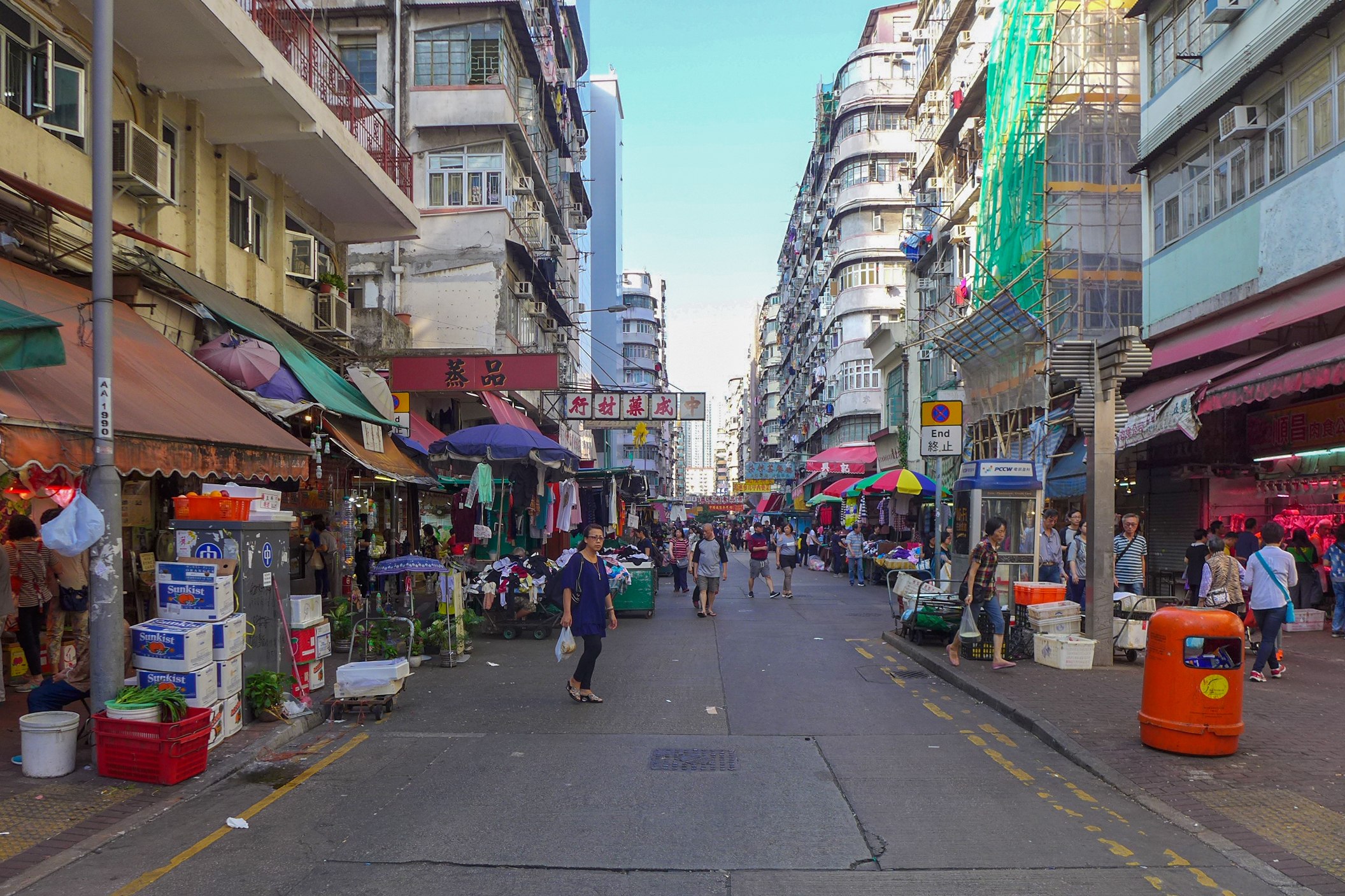 Sham Shui Po Pei Ho Street